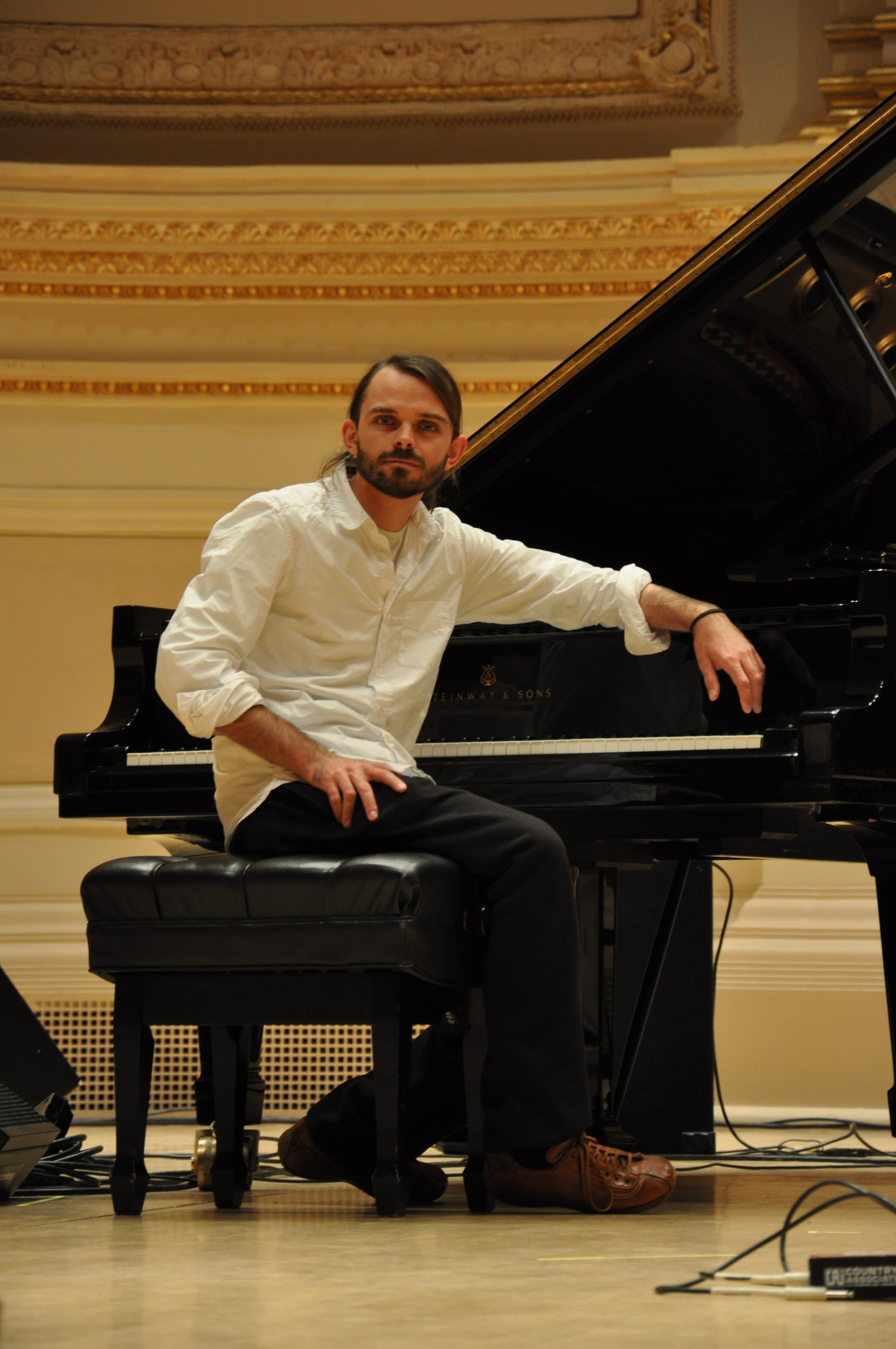 Sławek Jaskułke on concert tour "Frederic Chopin’s 200th Birthday Party A Polish Jazz Celebration". Symphony Hall Chicago & Carnegie Hall New York 2010.